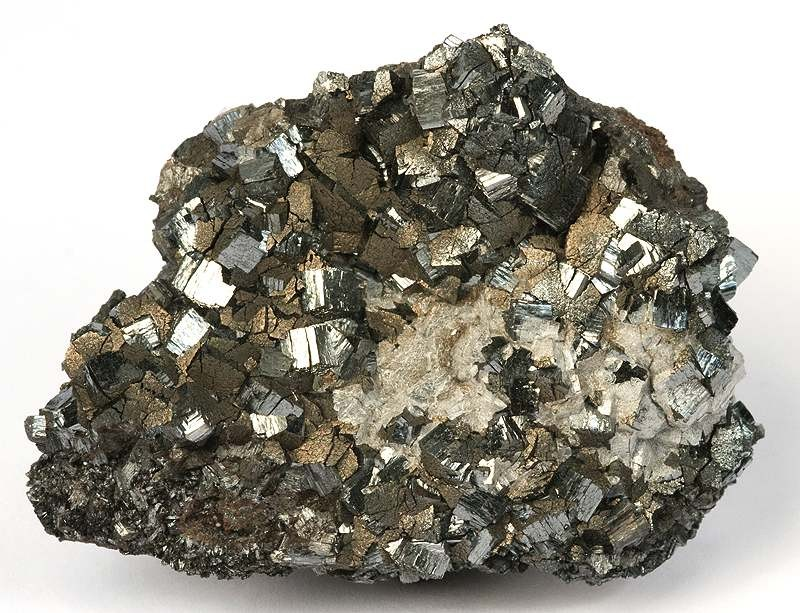 Ramsdellite Locality: Mistake Mine (Box Canyon deposits), Sam Powell Peak, Box Canyon District, Yavapai County, Arizona, USA (Locality at ) Size: 5.6 x 4.2 x 1.6 cm. Emplaced on matrix, this plate of equant, splendent, black ramsdellite crystals, to .5 cm across is partially coated by a thin, white, mineral that may be gypsum. Superb example by previous standards, this is a very aesthetic specimen that in person really stands out.